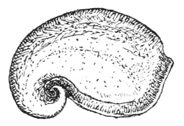 Crop of file in filename